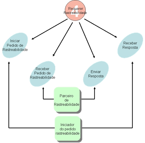 my work